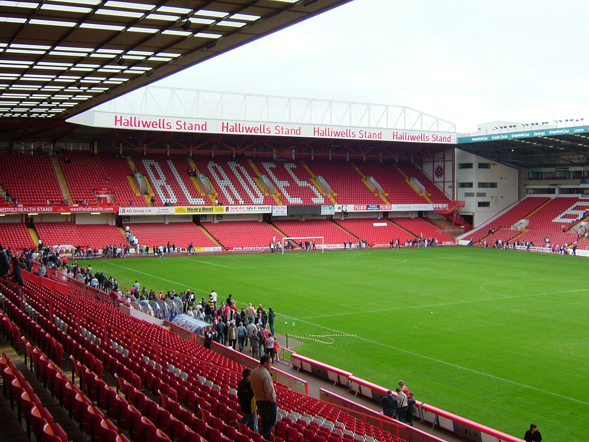 author:Lewis Skinner source:self made